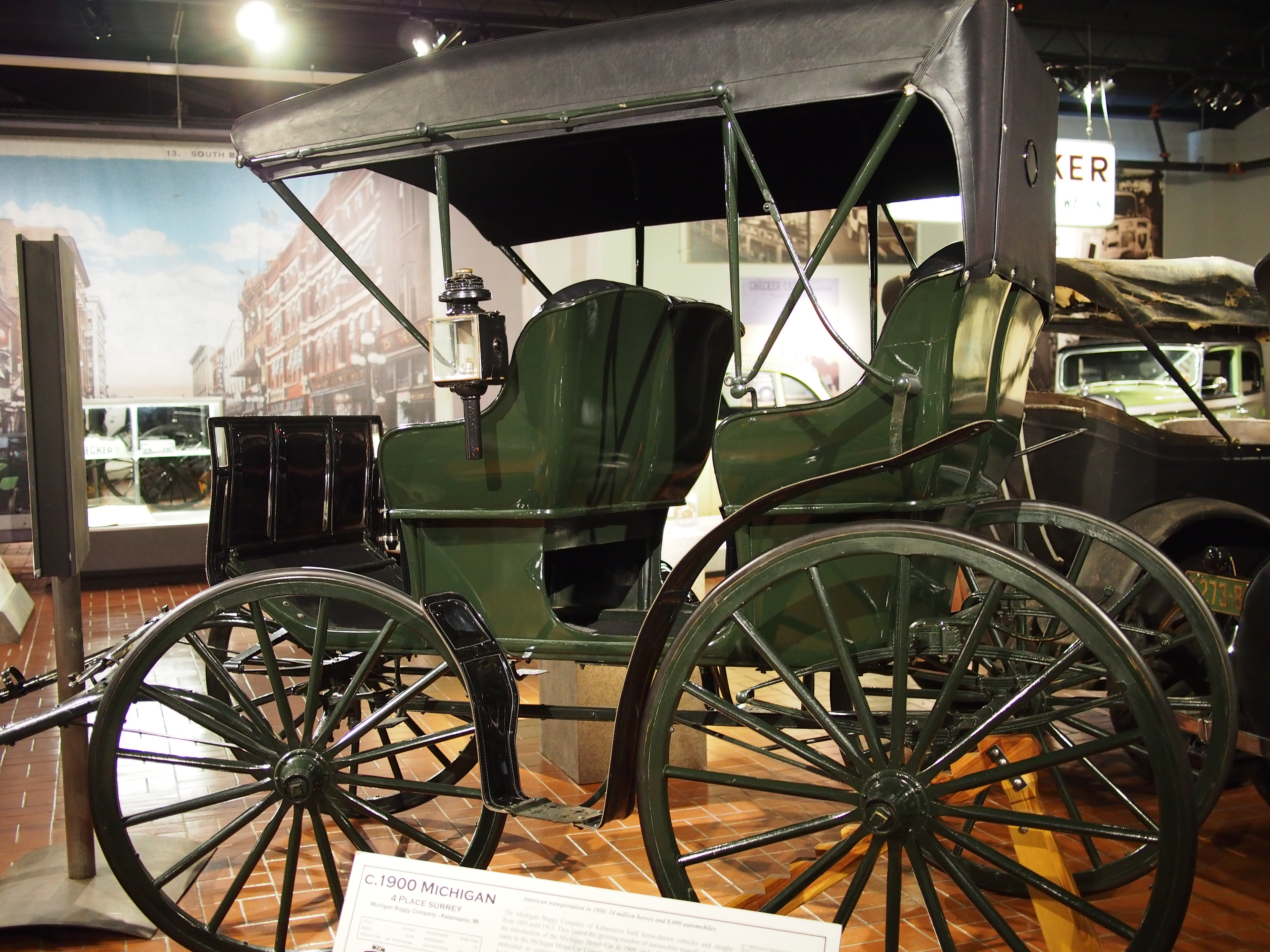 Michigan 4 Place Surrey, Michigan Buggy Company Automobiles Manufactured in Kalamazoo, Michigan